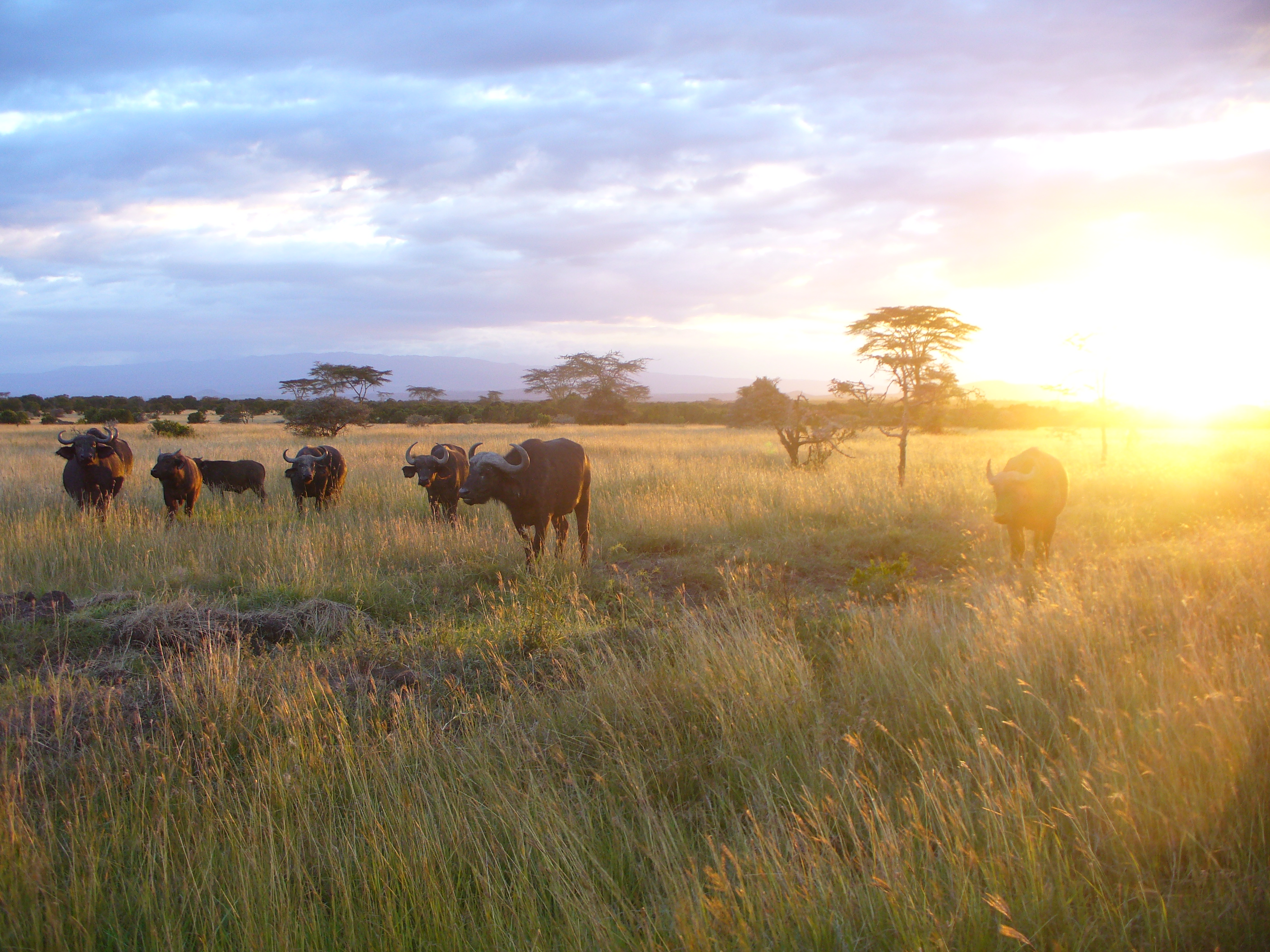 I took this picture myself on February 15, 2007 near Nanyuki, Kenya.